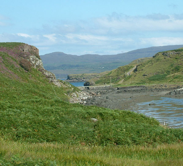 The Island of Gometra, on left is separated from the Isle of Ulva (on right) by a narrow tidal sound spanned by a bridge. The Isle of Mull is visible about 3 miles distant to the North.